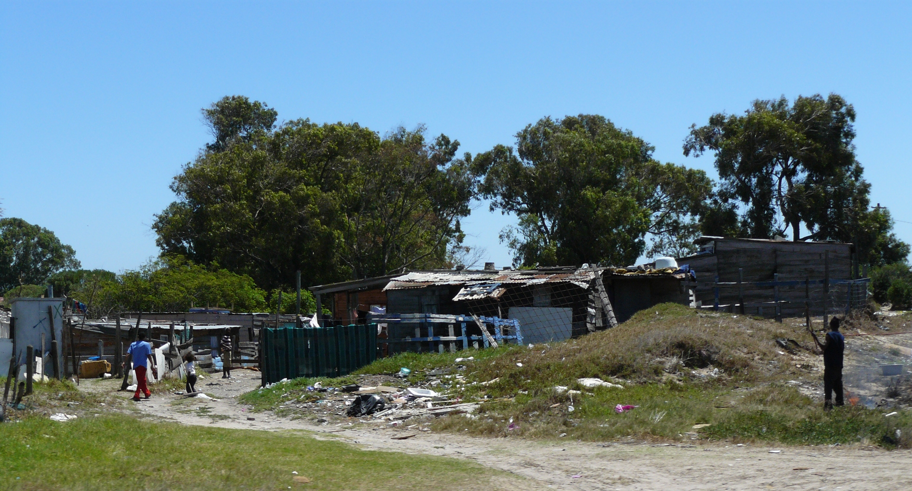 Sqatters at Western Cape